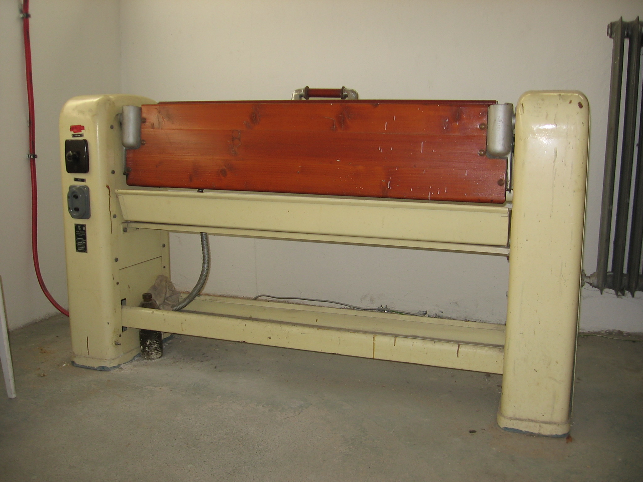 Modern electric mangle